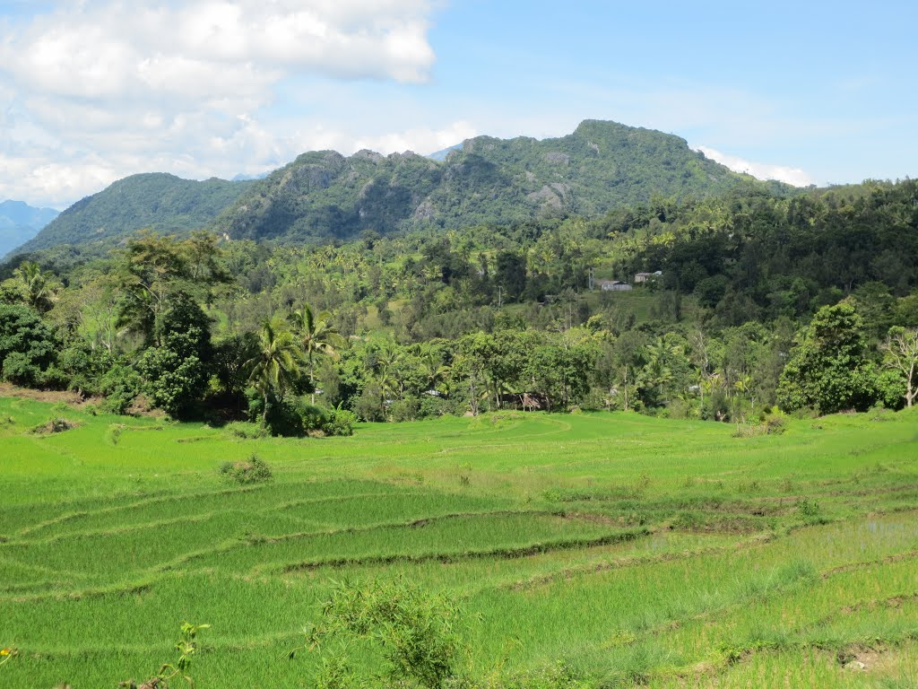 Ricefields and forested hills 13 km N of Venilale at Uai-Tali-Bu'u